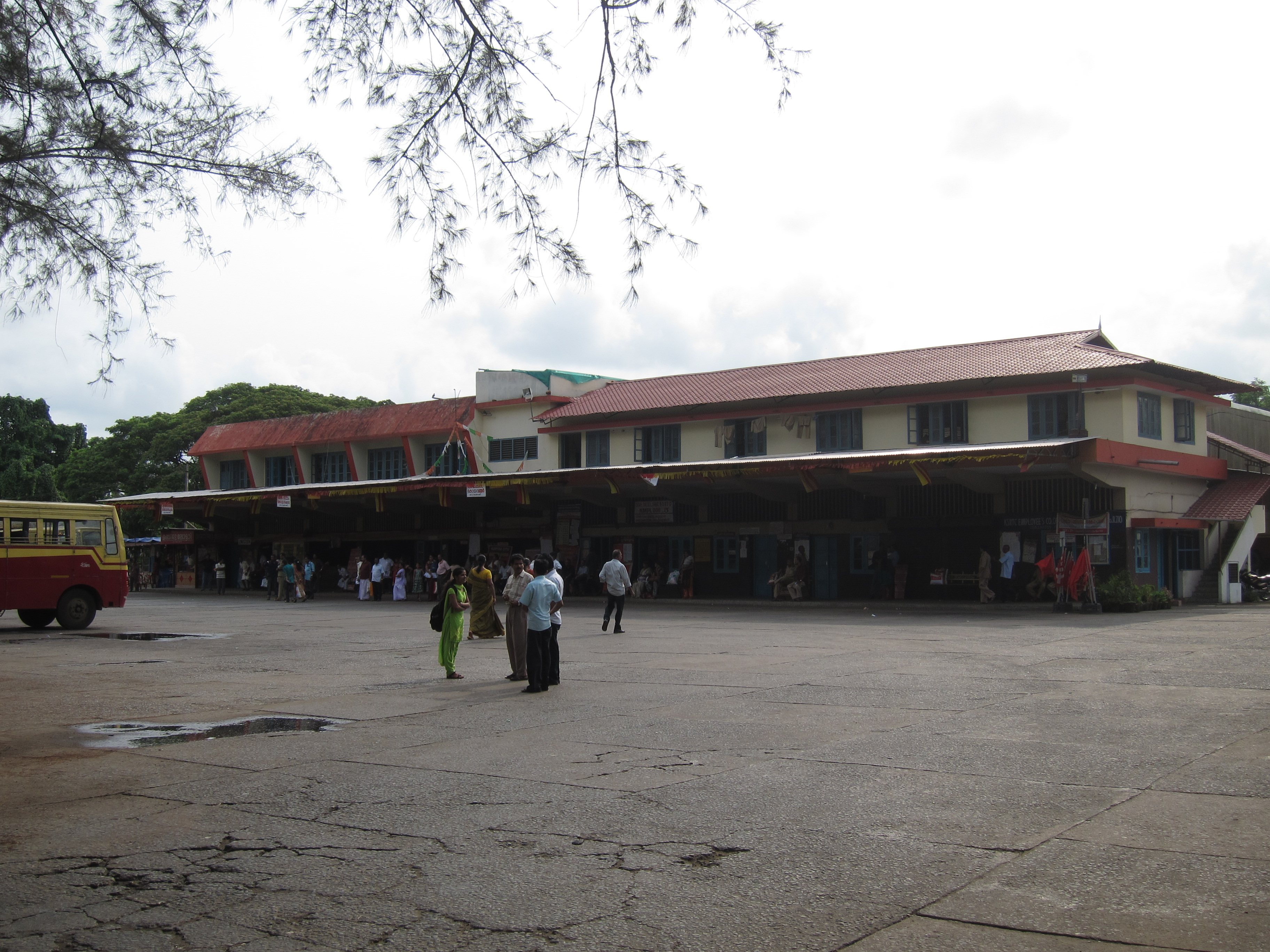 Chalakudy Transport Bus Stand, Chalakudy Thrissur